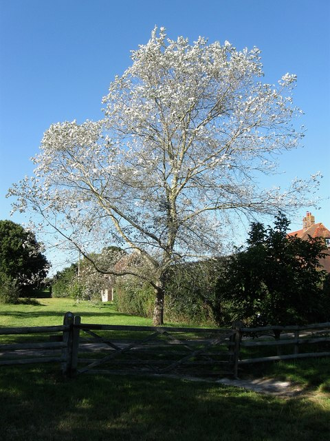 White Poplar, Shergolds Farm On the green lane outside the farm whose roof can be seen on the right.